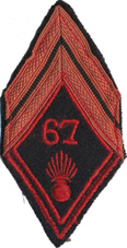 Corporal insignia of the 68th Infantry Regiment (France).